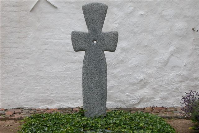 The Celtic Cross, gift from family Sven Havsteen- Mikkelsen